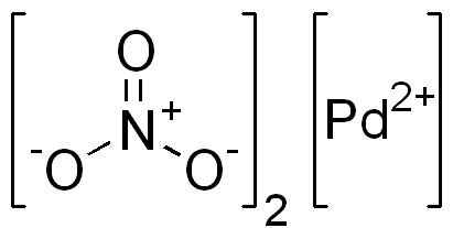 chemical structure of palladium(II) nitrate